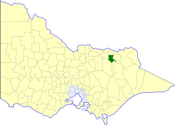 Location of the United Shire of Beechworth within Victoria.